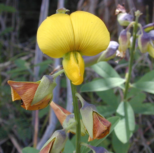 Flower of Crotalaria retusa L. taken on O‘ahu, Hawaiian Islands by Eric Guinther.